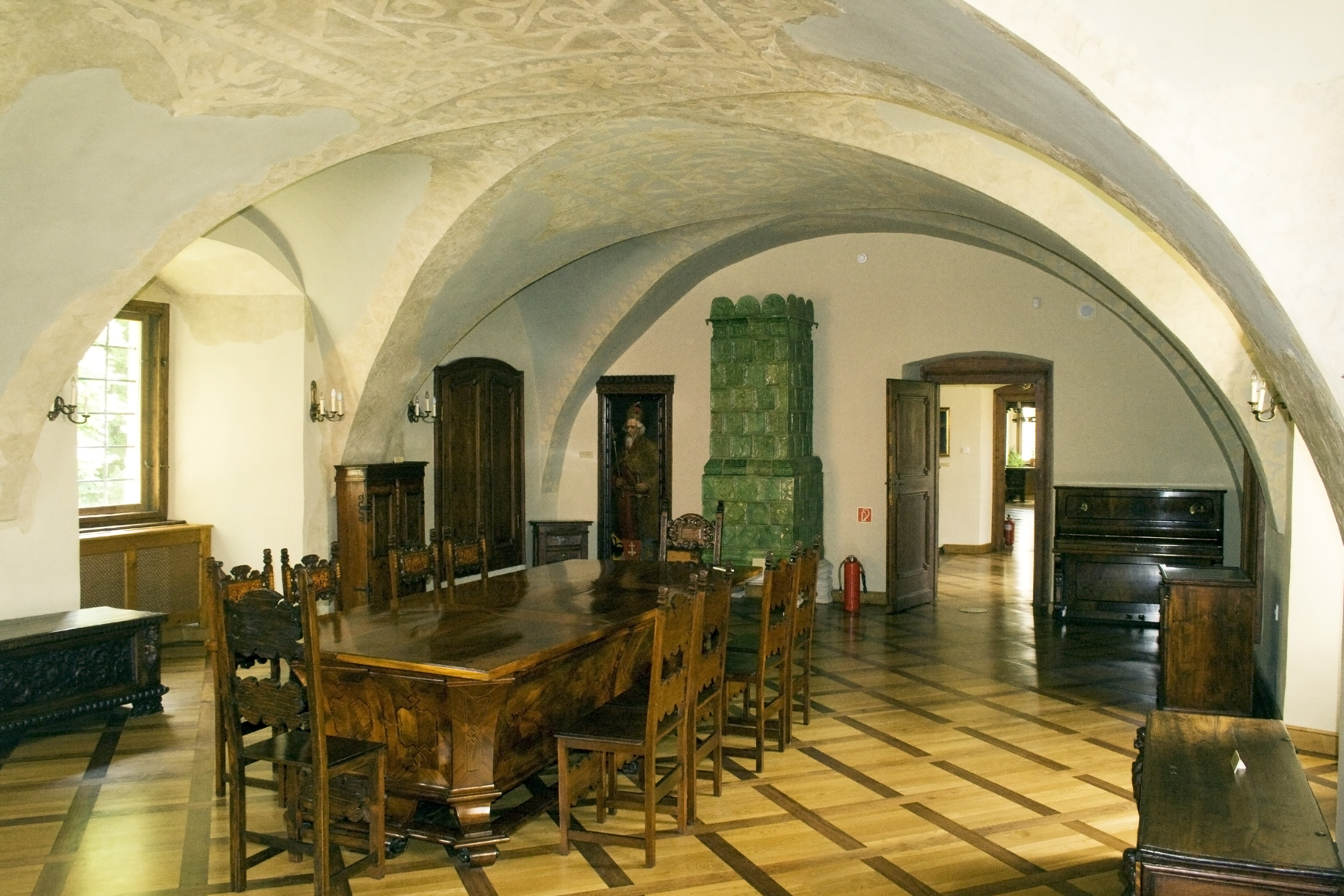 The main hall on the first floor from an other angle. Council board from the 18th century